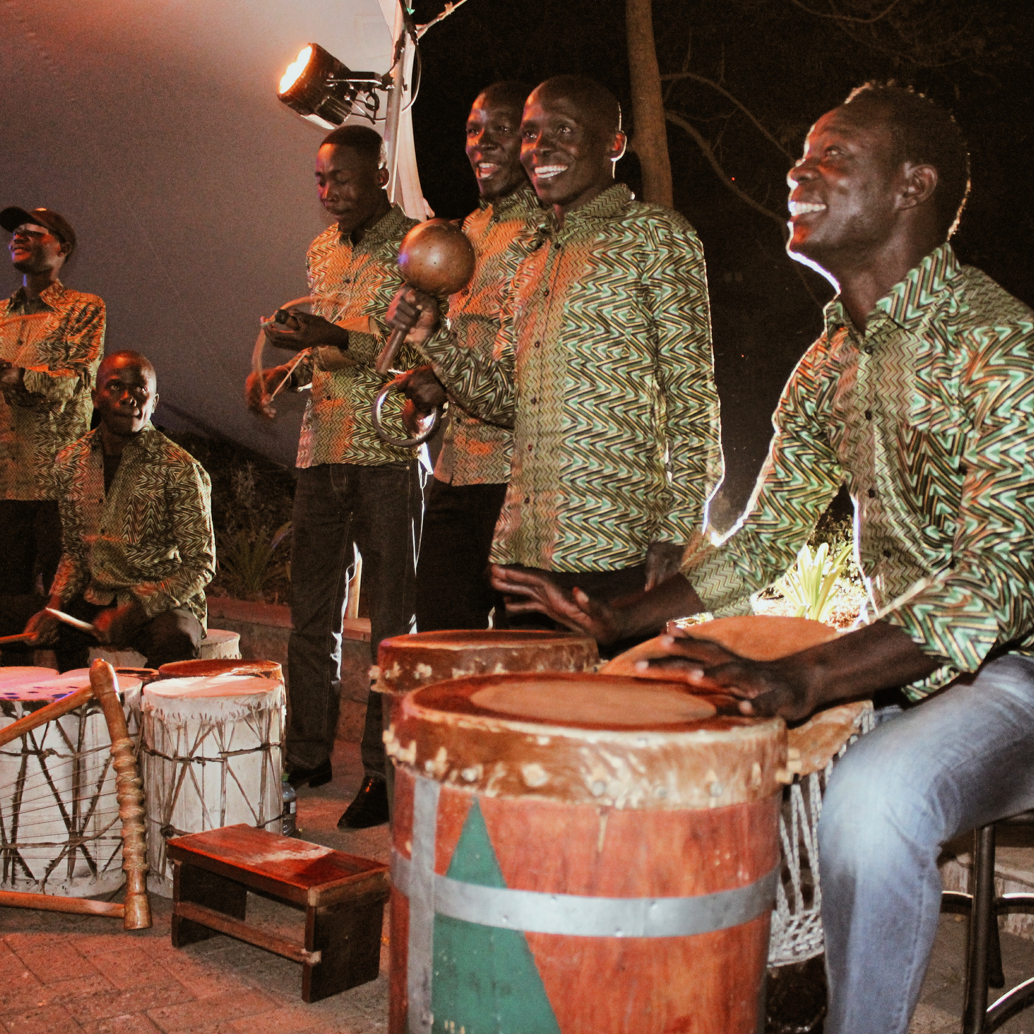 Kenyan musicians who specialise in traditional music embrace and conserve the culture This is an image from Kenya